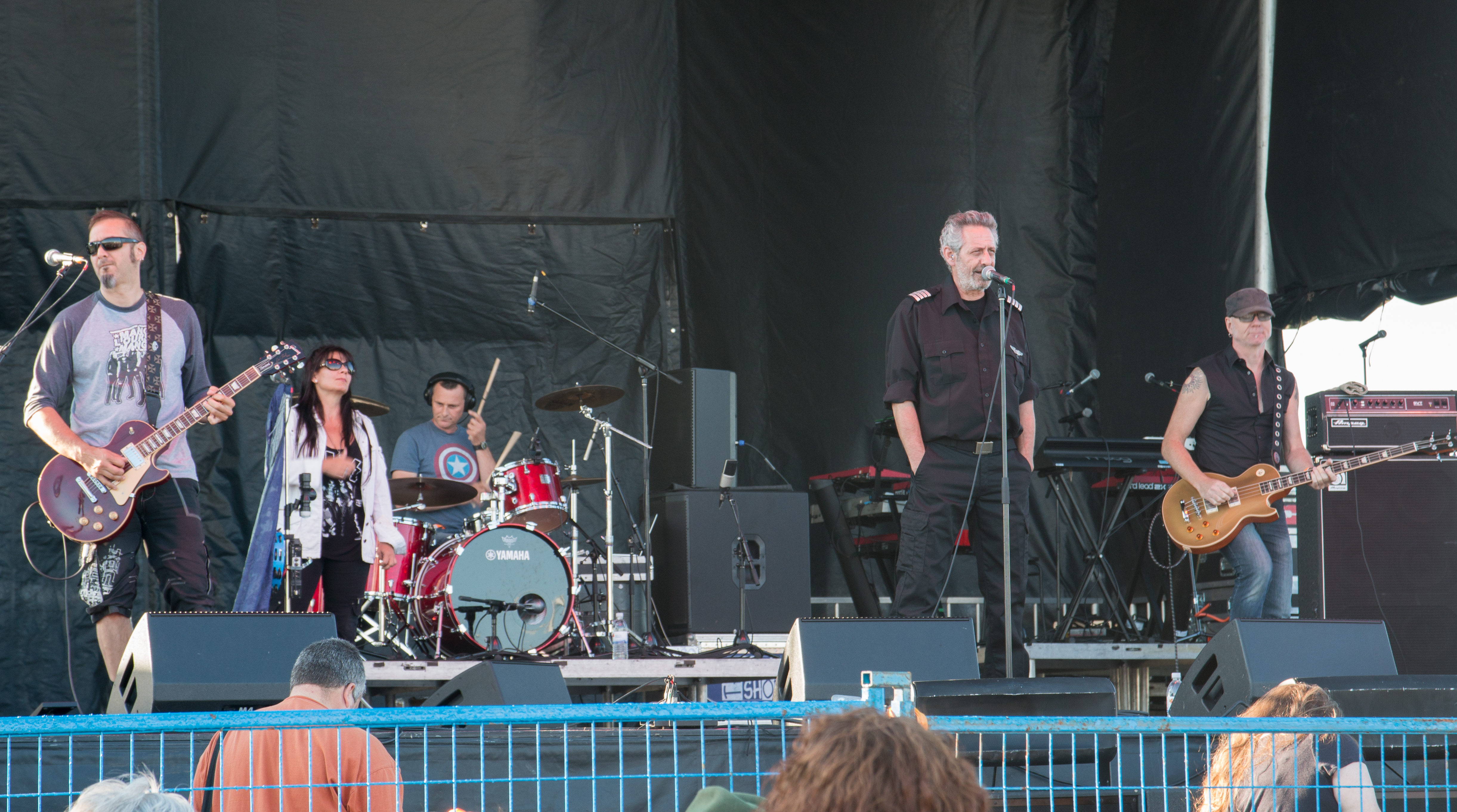 The Canadian band The Box, performing at the Festival of Friends in Ancaster, ON